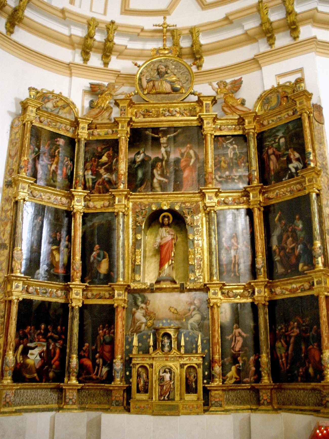 Retablo renacentista de San Pedro, en la iglesia del Convento de la Concepción de Cuéllar (provincia de Segovia, Castilla y León, España).